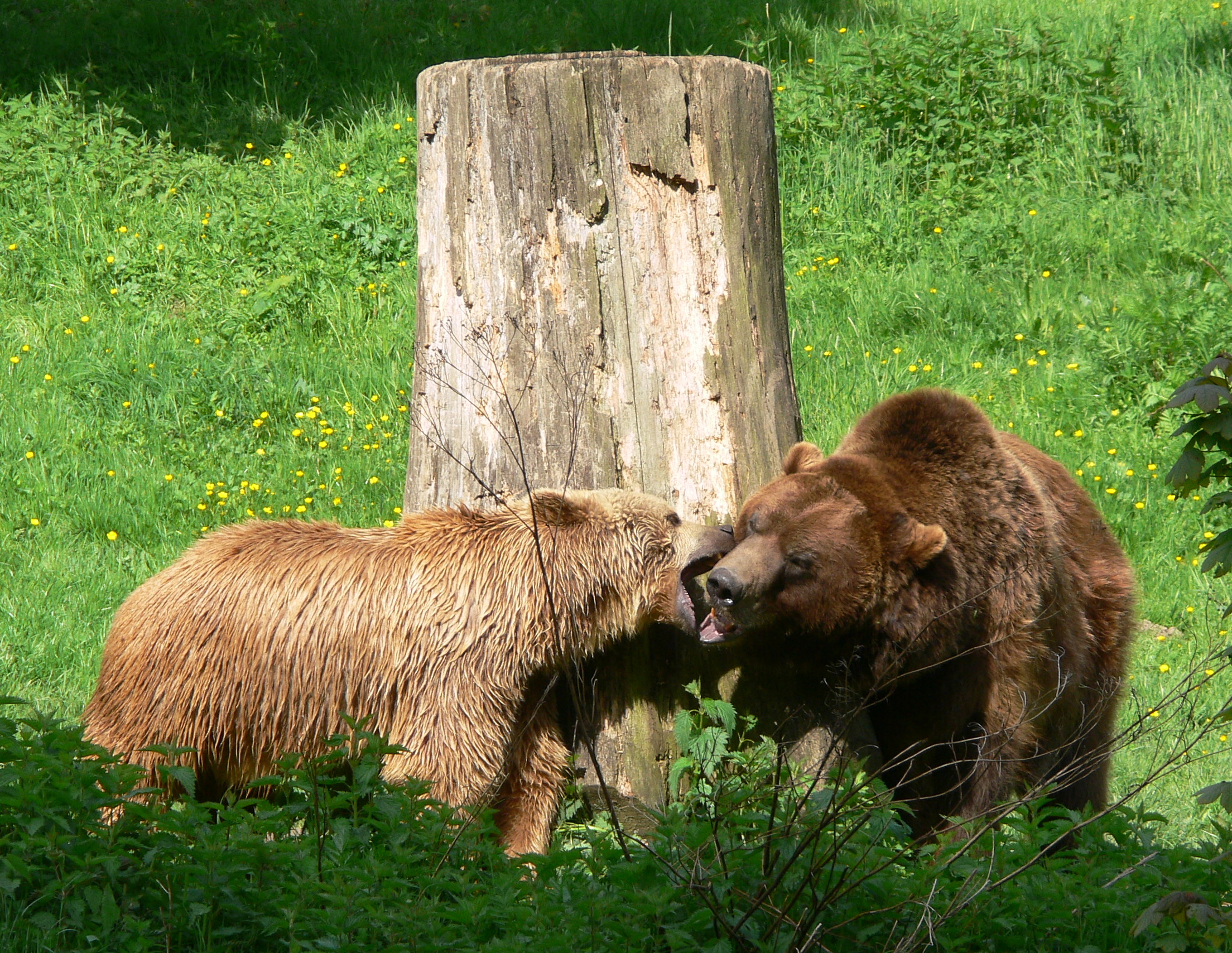 Brown bears in the Olderdissen Animal Park, Bielefeld, Germany. Max (darker one), male, was born 1993; Jule, female, was born 1990